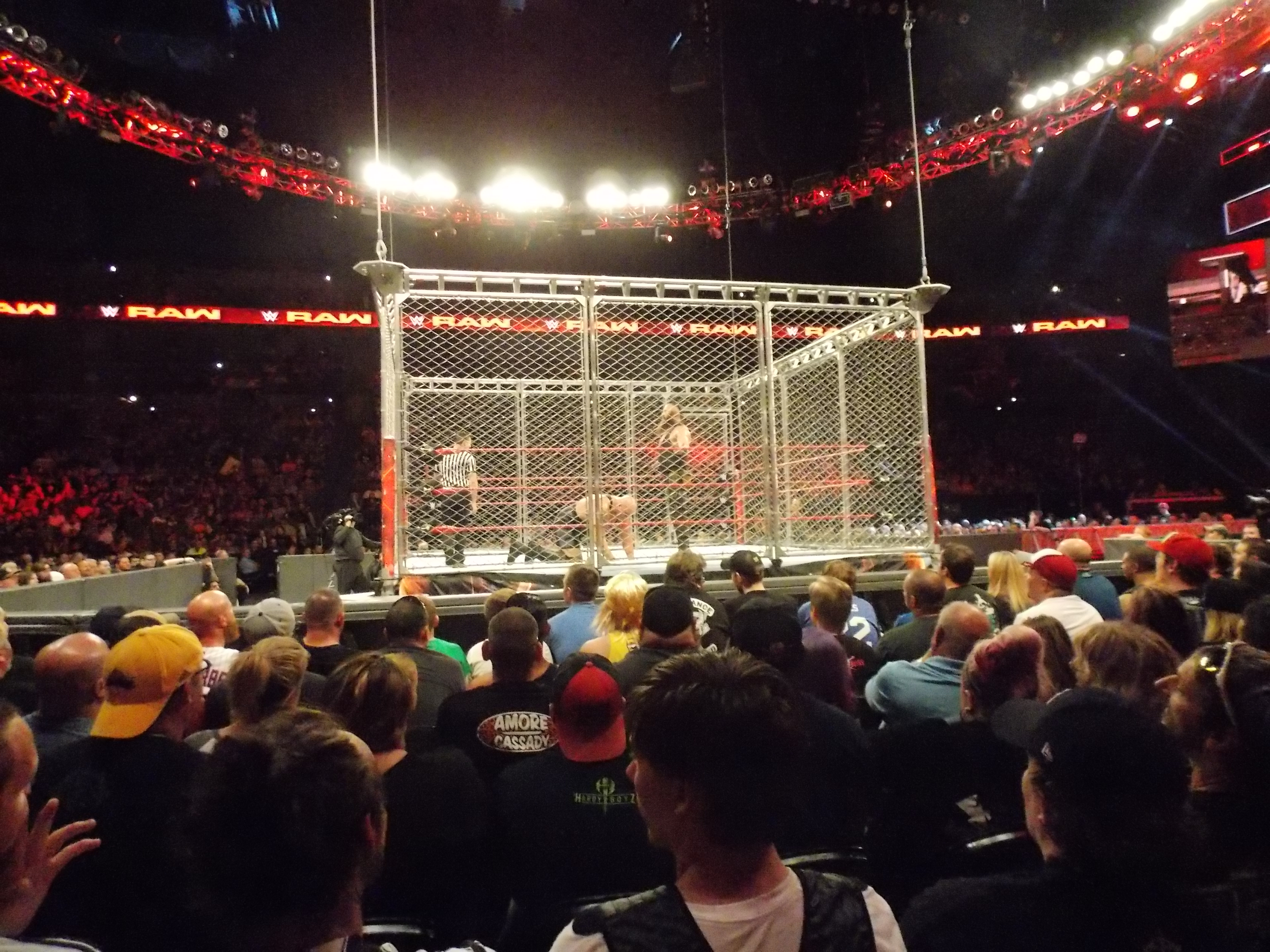 Big Show vs. Braun Strowman in a Steel Cage match at WWE Monday Night Raw on Monday, September 4, 2017 in Omaha, Nebraska, USA